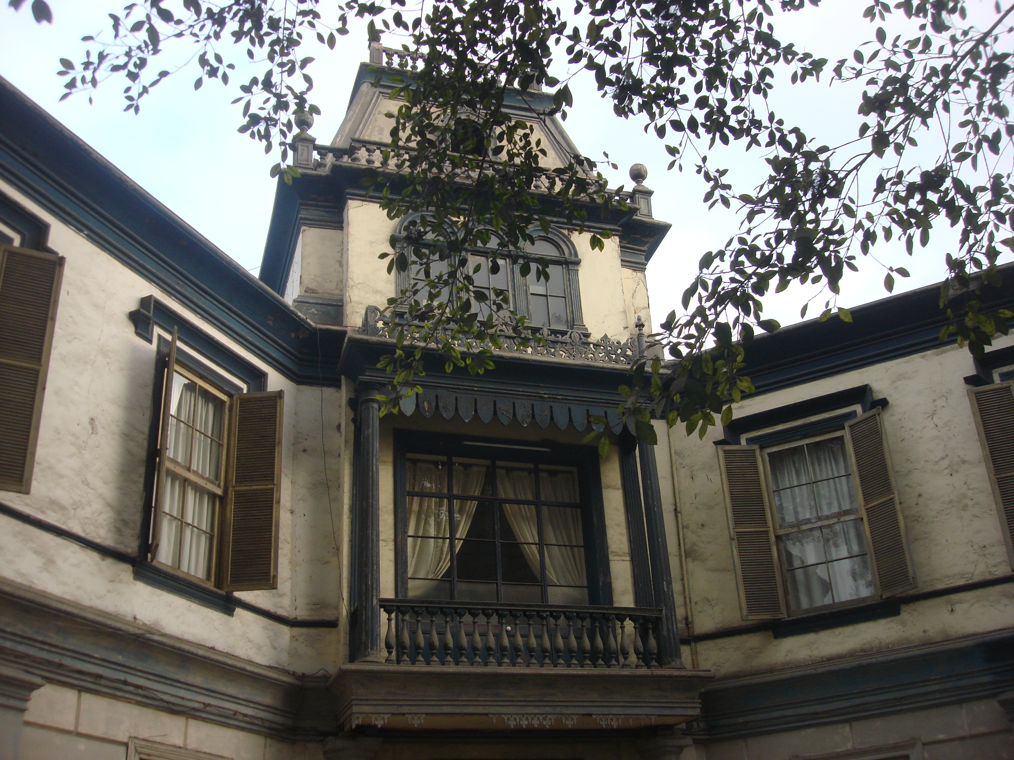 Quinta Heeren, a historical place in Lima.